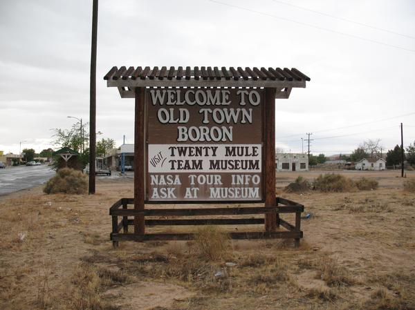 an older entrance sign to Boron